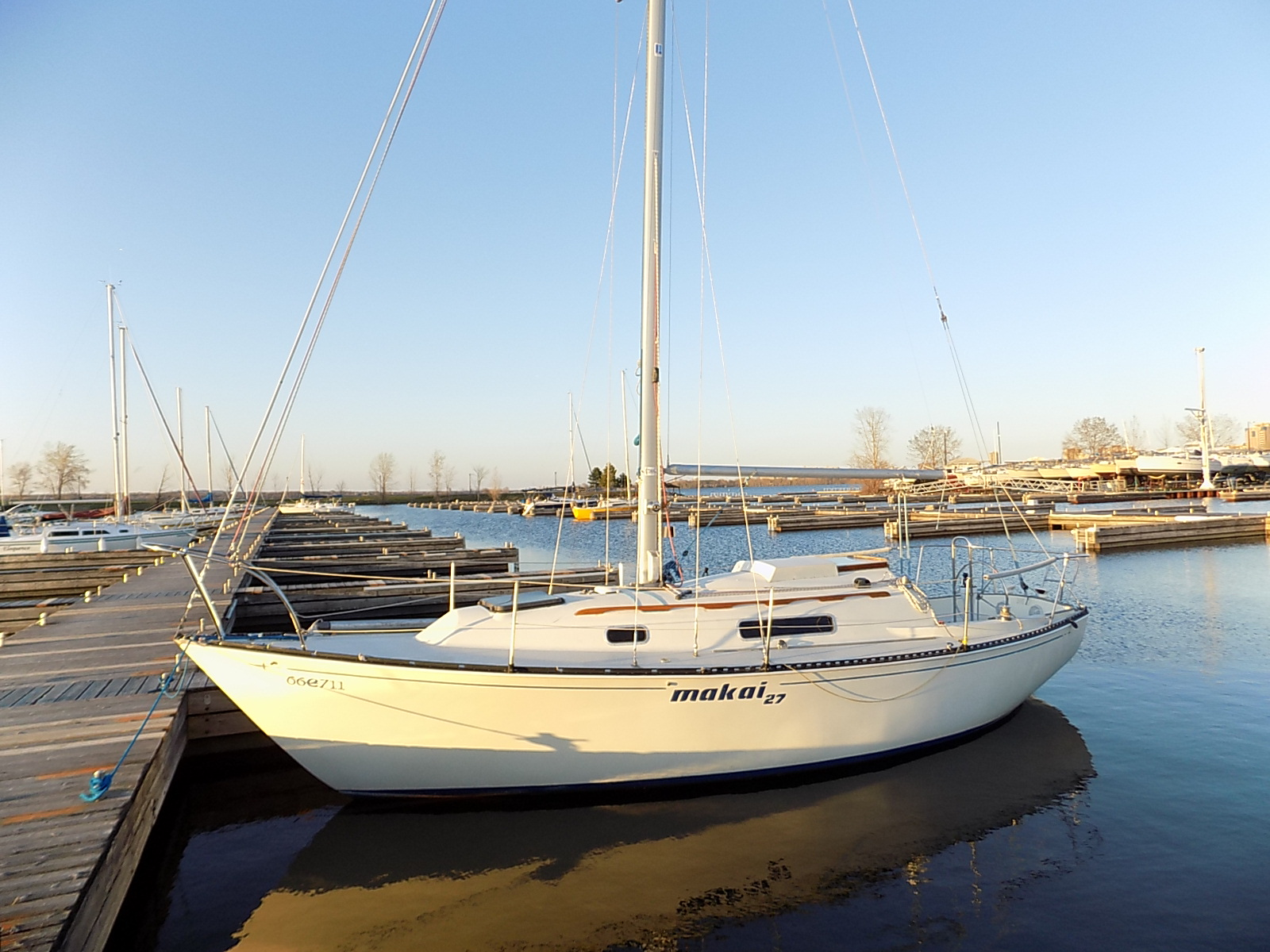 A C&C 27 Mk 3 Sailboat named Makai 27